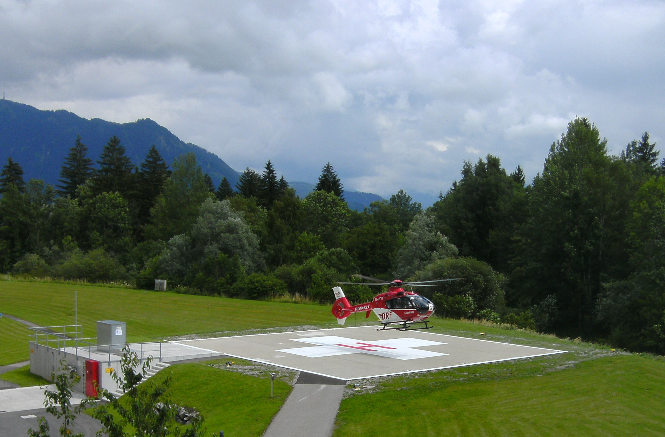 Immenstadt Helipad with Eurocopter EC 135 - Sign: HYYY